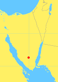 Map of Sinai Peninsula, showing location of Jabal Musa (aka Mt Sinai) Lat 28.53417 N Lon 33.97361 E